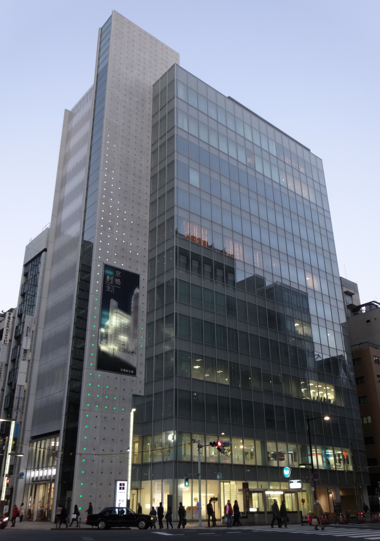 Kyobashi souseikan building Tokyo,Japan